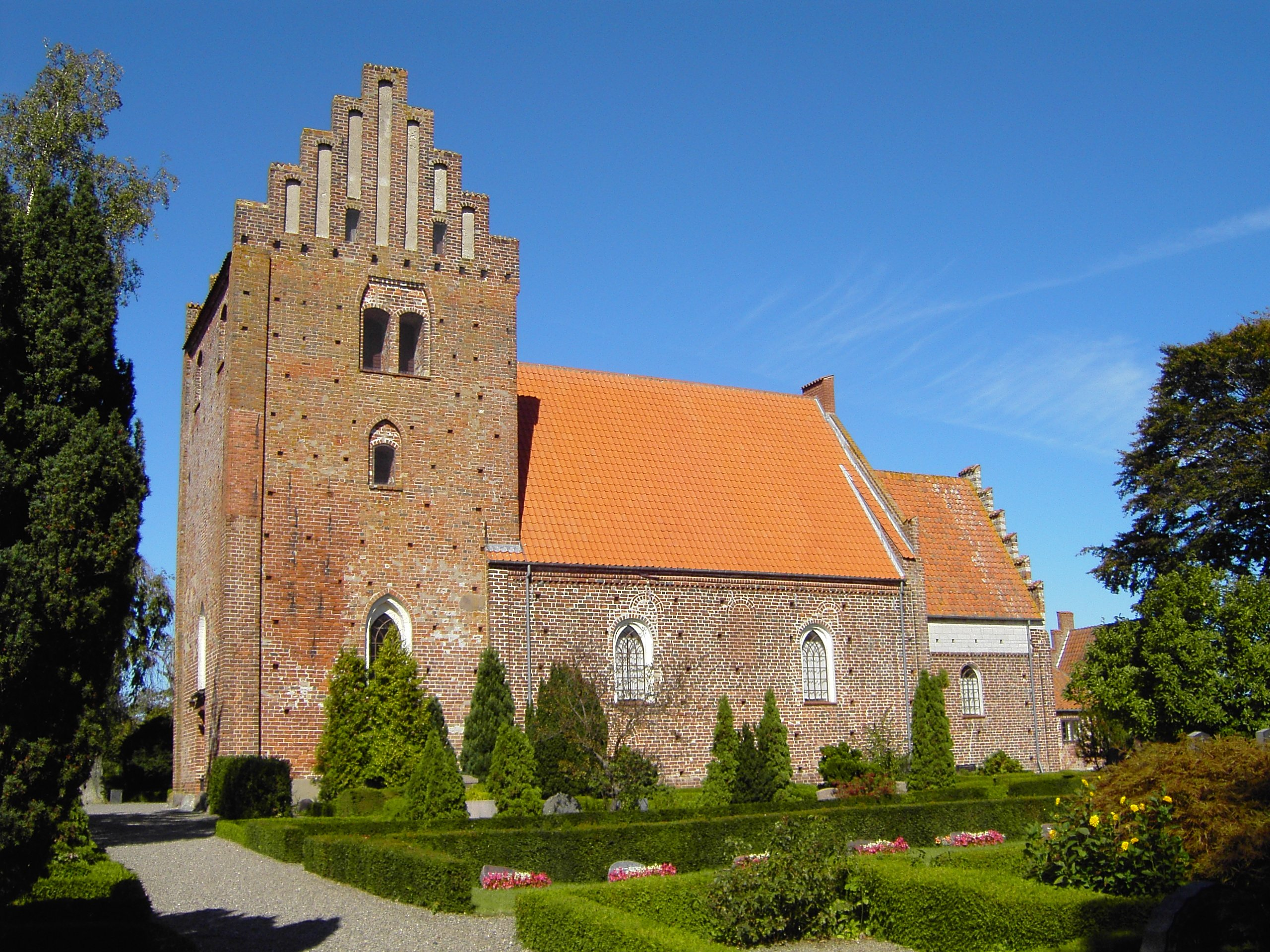 Keldby church, Diocese of Lolland-Falster, from south-west